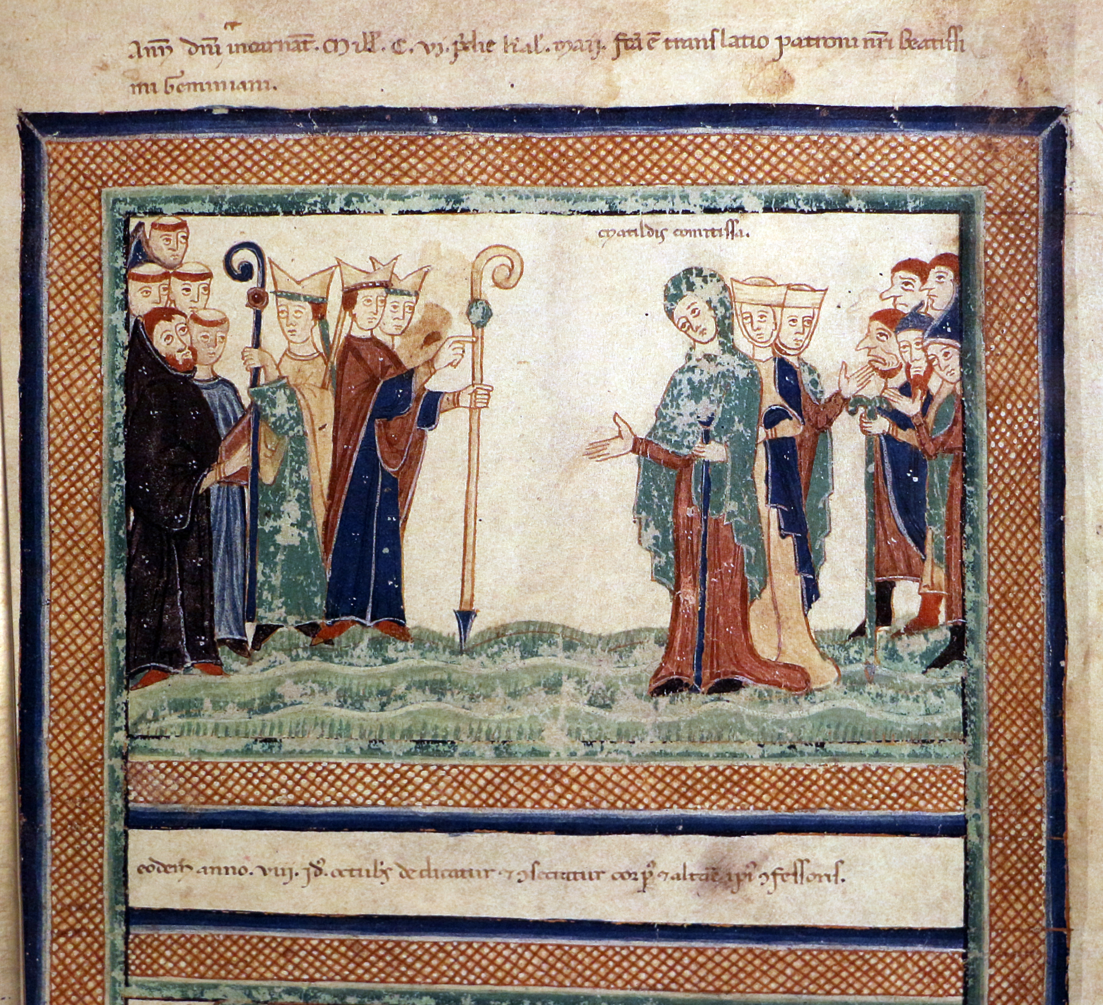 Museo della Cattedrale (Modena)